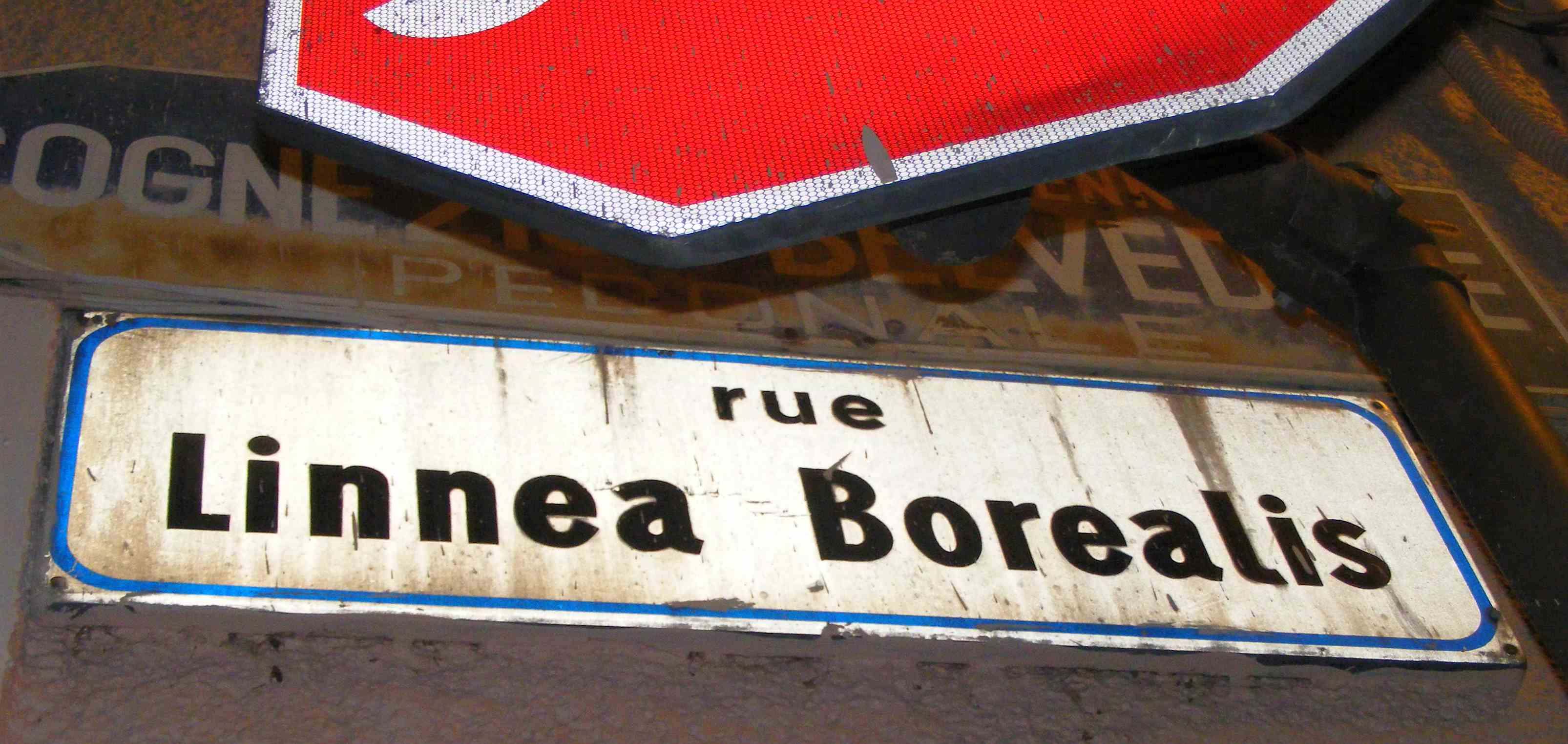 Cogne (AO, Italy): rue Linnea Borealis